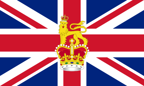 Flag of the Chief of the General Staff